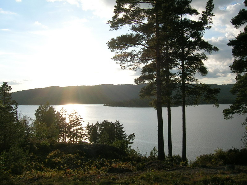 Vegaar lake in Norway